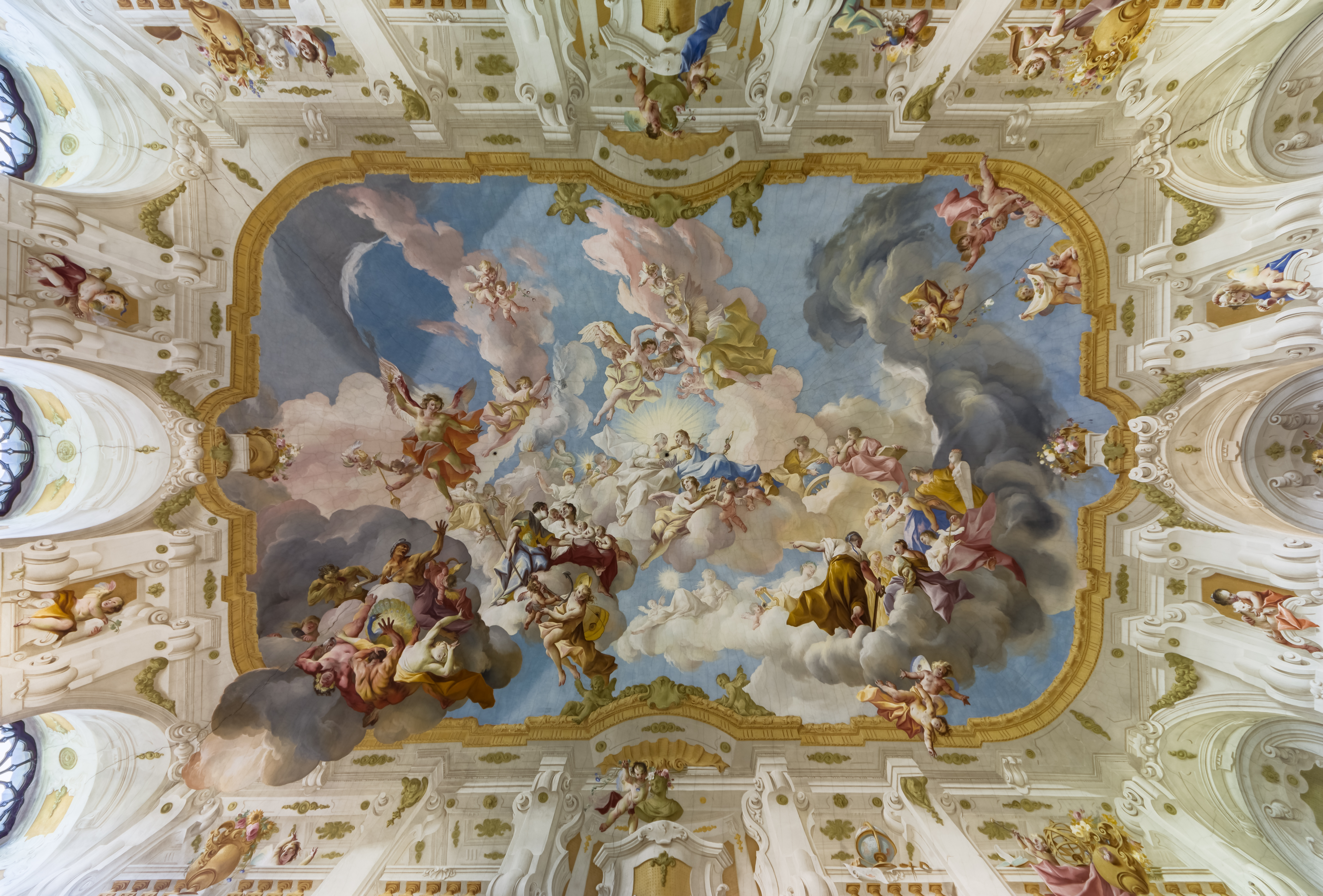 Ceiling fresco of the Marble Hall at Seitenstetten Abbey (Lower Austria) by Paul Troger (1735): The Harmony between Religion and Science